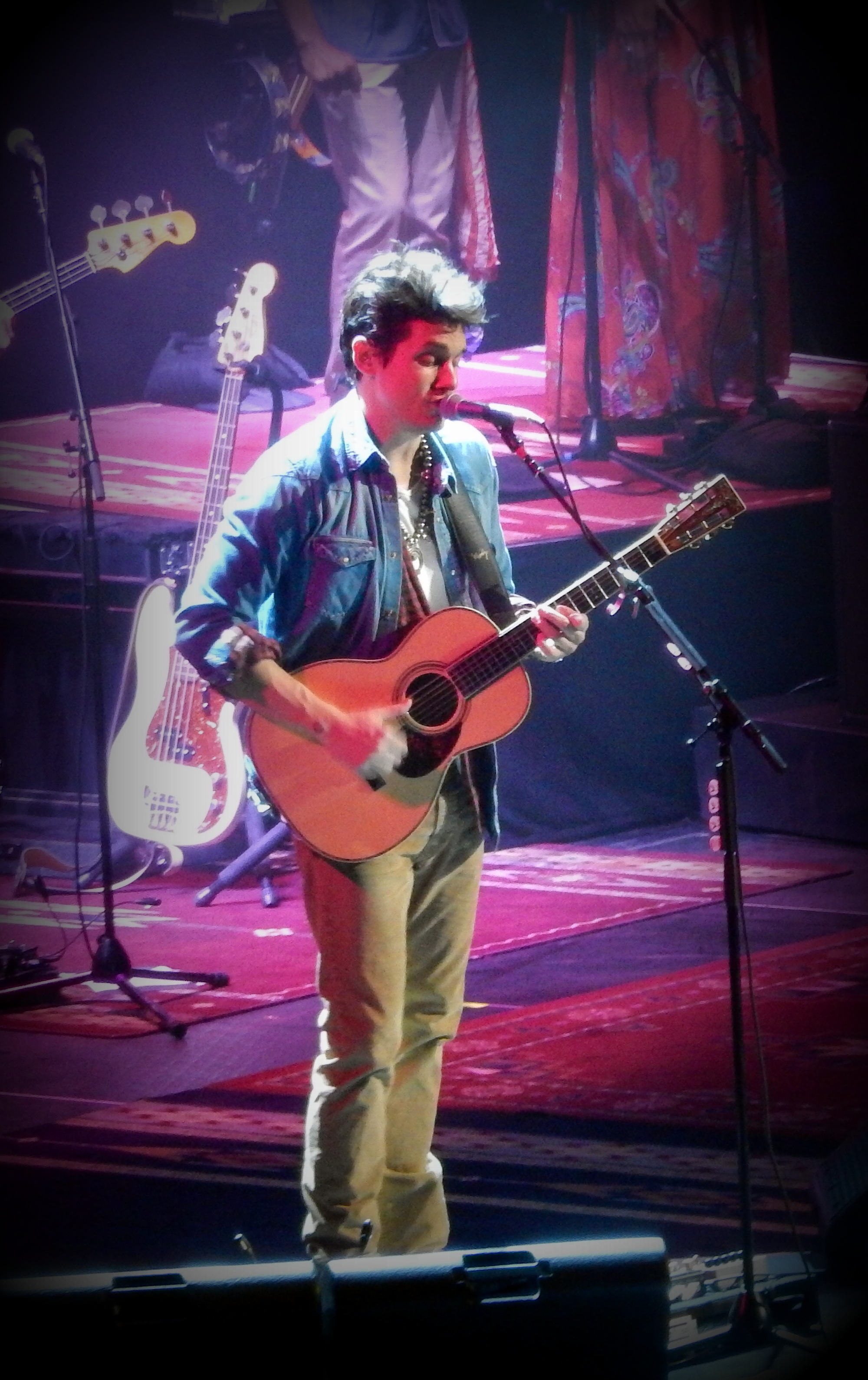 Detail of photo of John Mayer at the Barclays Center on December 13, 2013